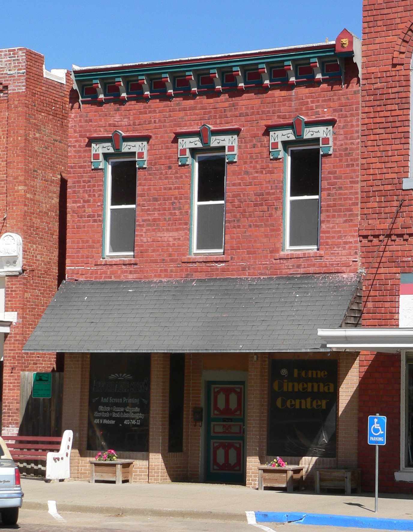 City Pharmacy building, at 410 N. Webster Street in Red Cloud, Nebraska. The building was constructed in 1885. It is part of Red Cloud's Main Street Historic District, which is listed in the National Register of Historic Places; the building is also listed indpendently in the NRHP.